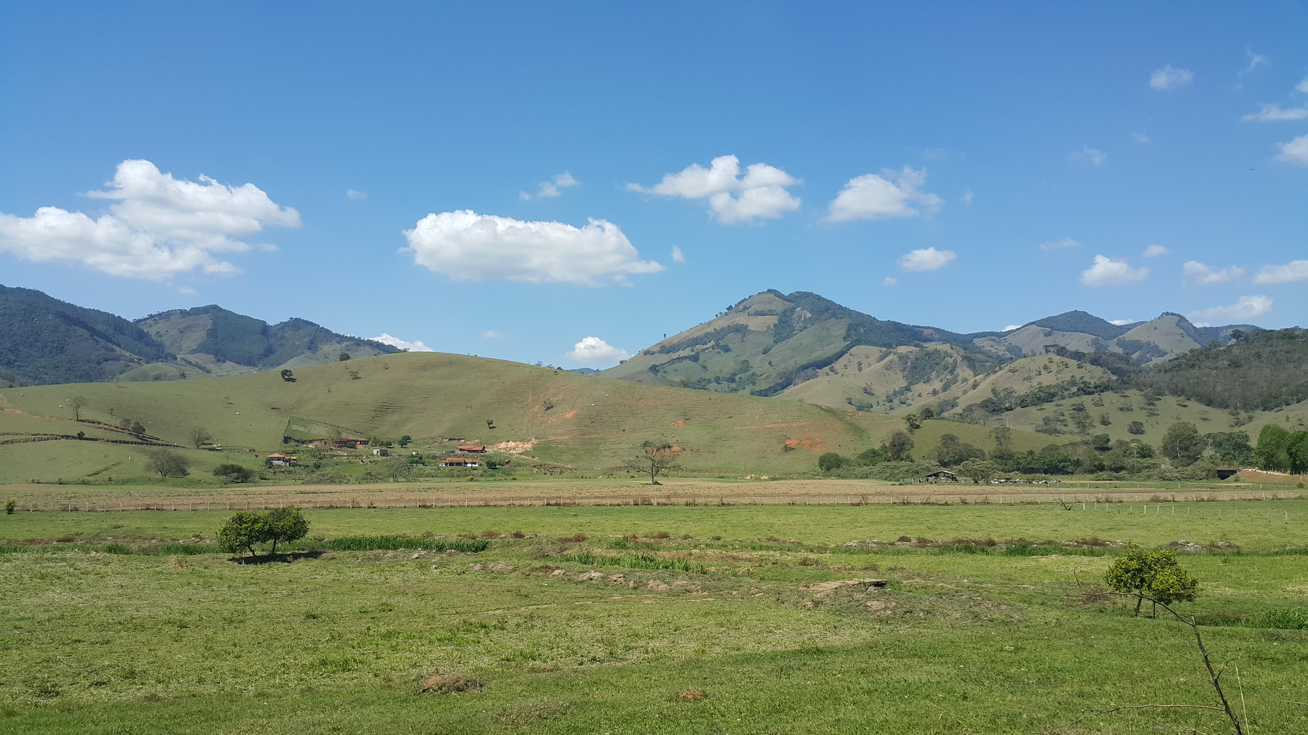 A Countryside view of Gonçalves municipality, with mountains of Serra da Bocaina on the background. Seen next to MG-173 highway, in Minas Gerais, Brazil.